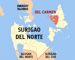 Map of the Surigao del Norte showing the location of Del Carmen